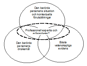 Simple image of evidence-based decision processes, based on Haynes, Devereaux & Guyatt, 2002